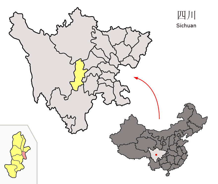 Location of Yucheng District (pink) and Ya'an Prefecture (yellow) within Sichuan province of China Map drawn in october 2007 using various sources, mainly : Sichuan province administrative regions GIS data: 1:1M, County level, 1990 Sichuan Counties map from